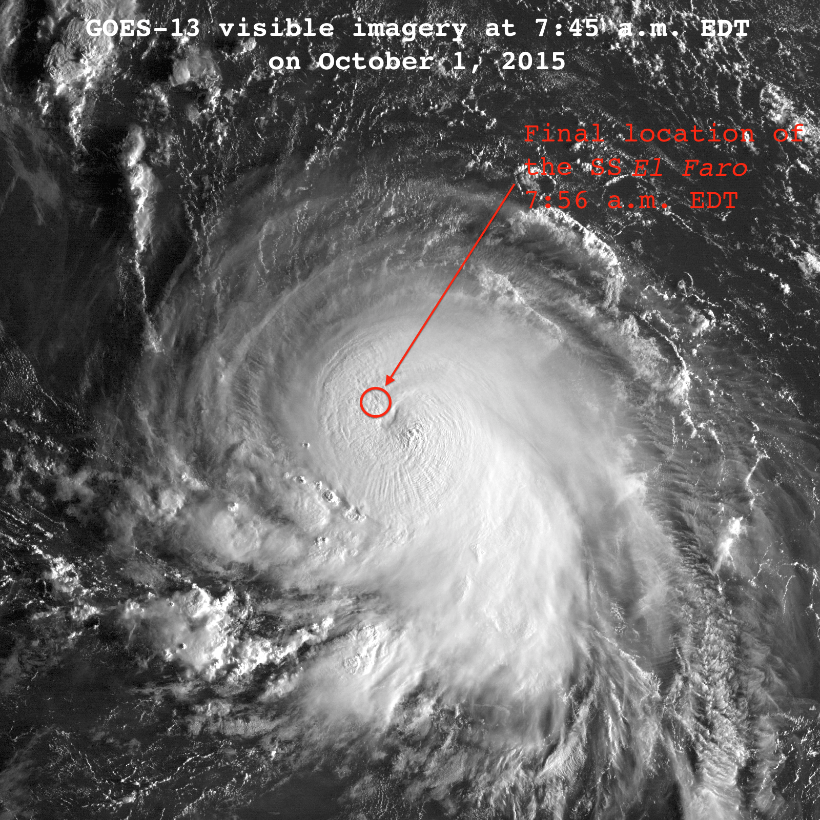 Visible satellite imagery of Hurricane Joaquin at 11:45 UTC October 1, 2015. The SS El Faro was lost in the hurricane around this time, with its final position reported in the northwestern eyewall. Image is slightly modified from original to include annotations. Approximate location of the SS El Faro was obtained from Reuters via WUnderground.